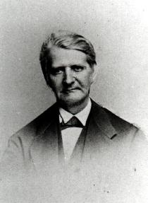 Photograph of the German entomologist Arnold Förster (Foerster)